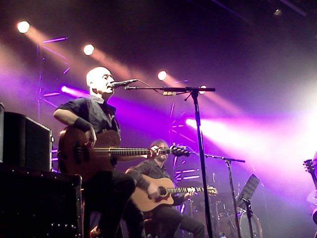 Israeli guuitarist Michael Benson in Maishina concert, Carmiel 2012